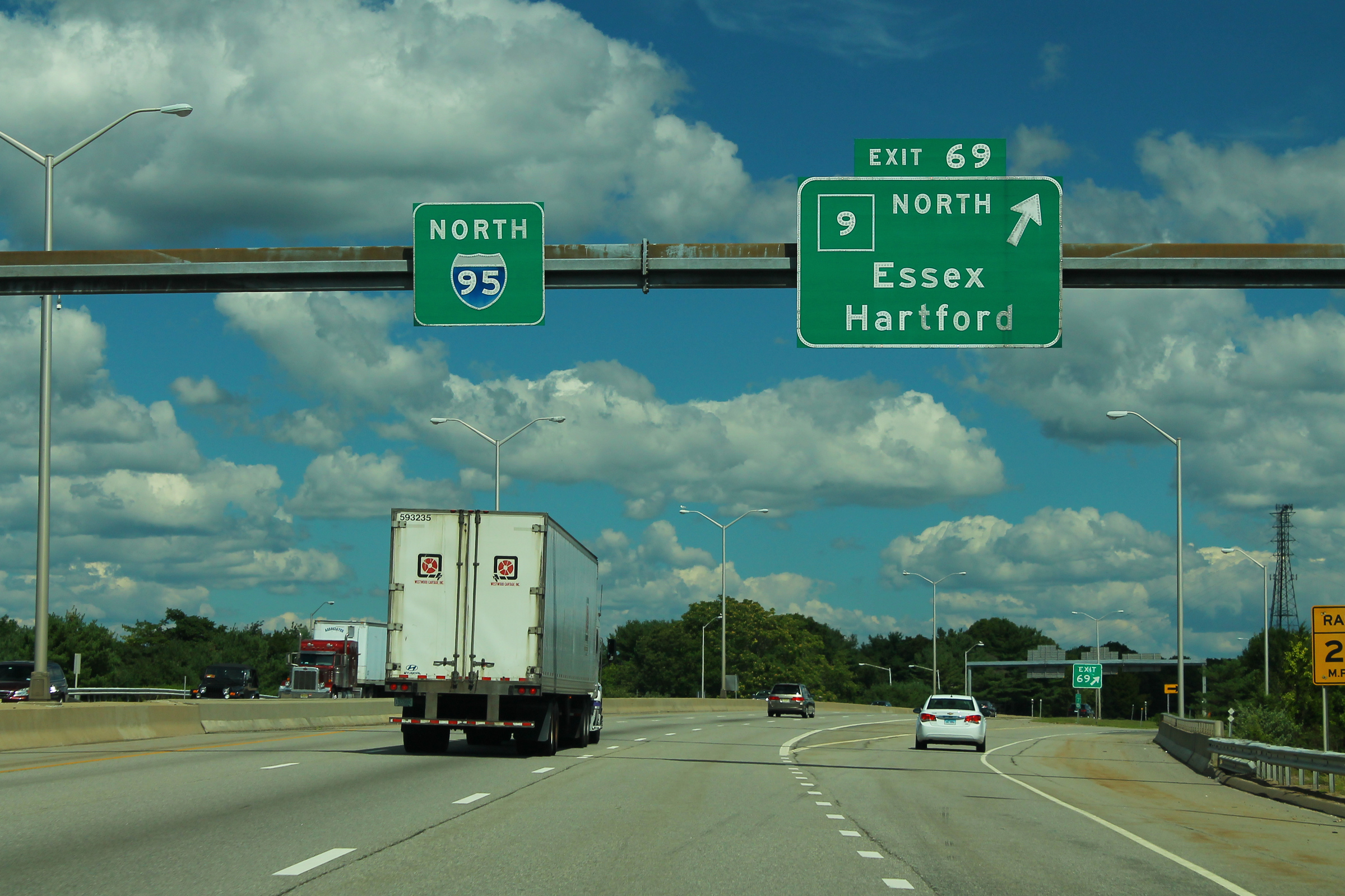 Int95nRoadCT-Exit69-CT9n